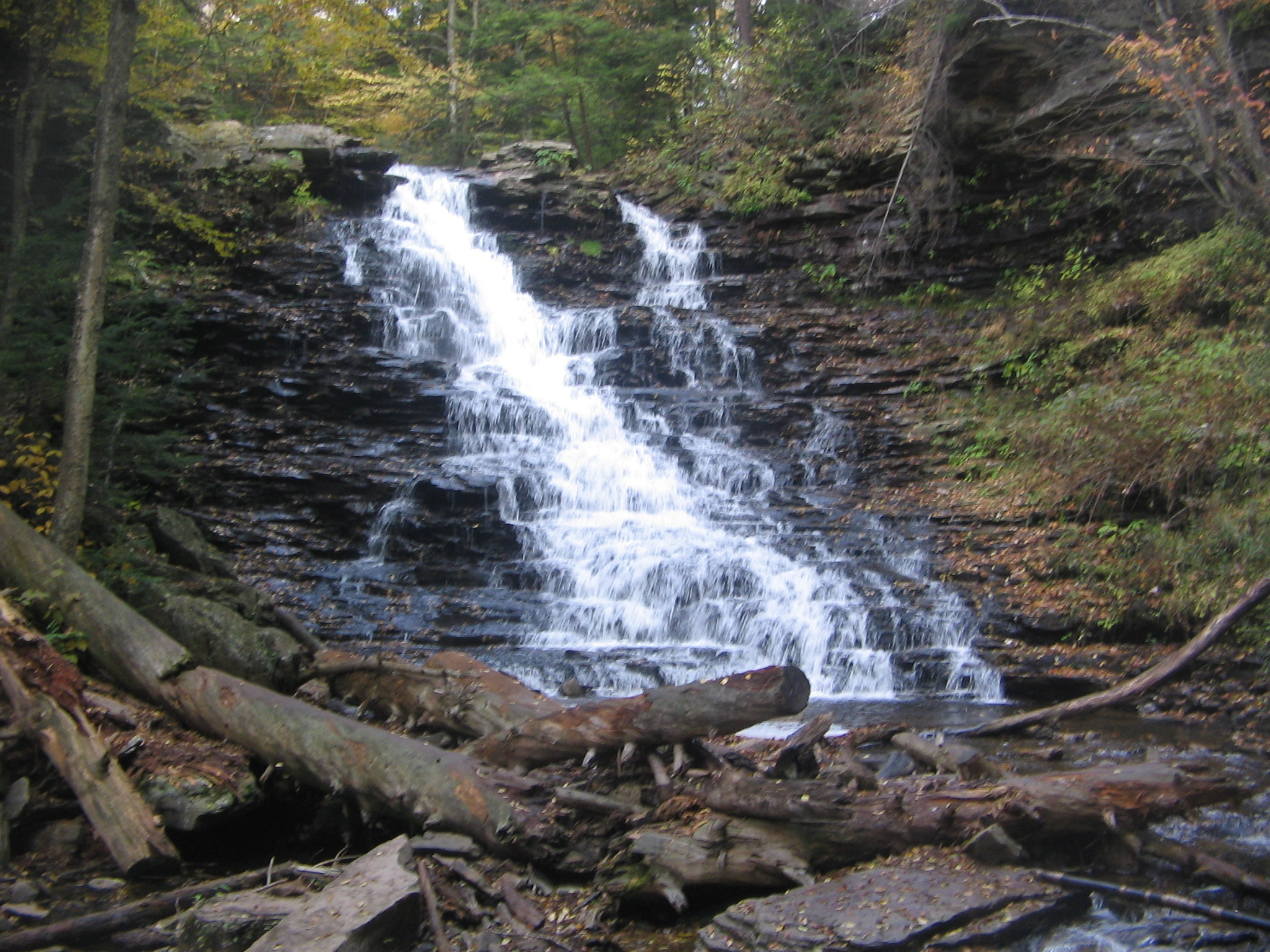 F.L. Ricketts Falls (38 feet (11.6 m) tall) on Kitchen Creek on the Glen Leigh trail in Ricketts Glen State Park, Fairmount Township, Luzerne County, Pennsylvania, USA. It is the seventh of eight named waterfalls in Glen Leigh on Kitchen Creek, going upstream from Waters Meet, and one of twenty two named waterfalls in the park, according to the Pennsylvania Department of Conservation and Natural Resources.